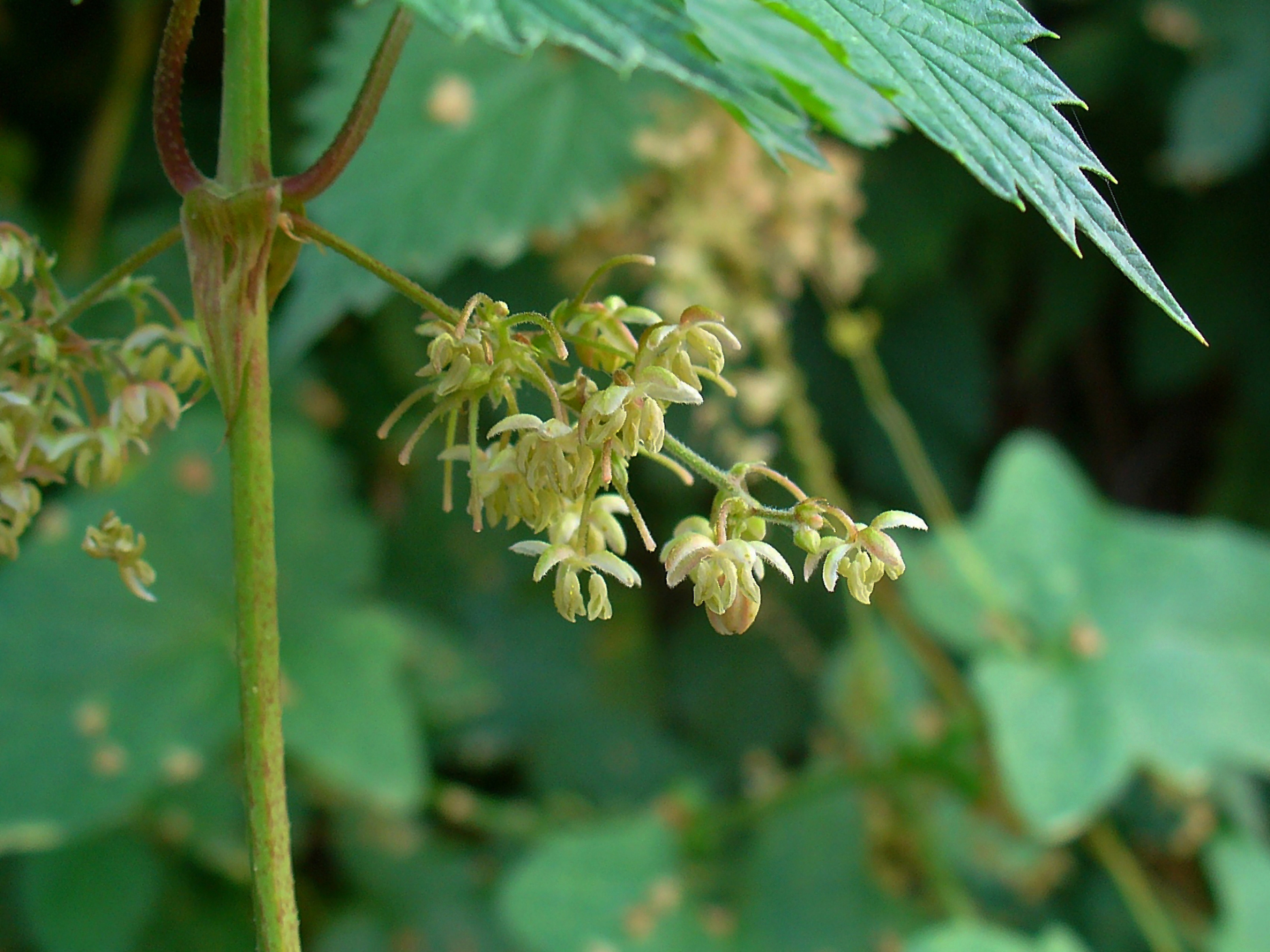 Common Hop, male inflorescence; Karlsruhe, Germany.